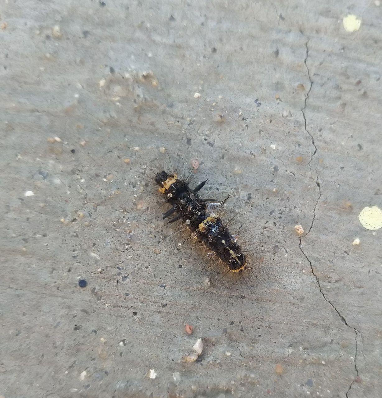 Nepita Conferta (Footman Moth) Caterpillar. Photo was taken in Bangalore